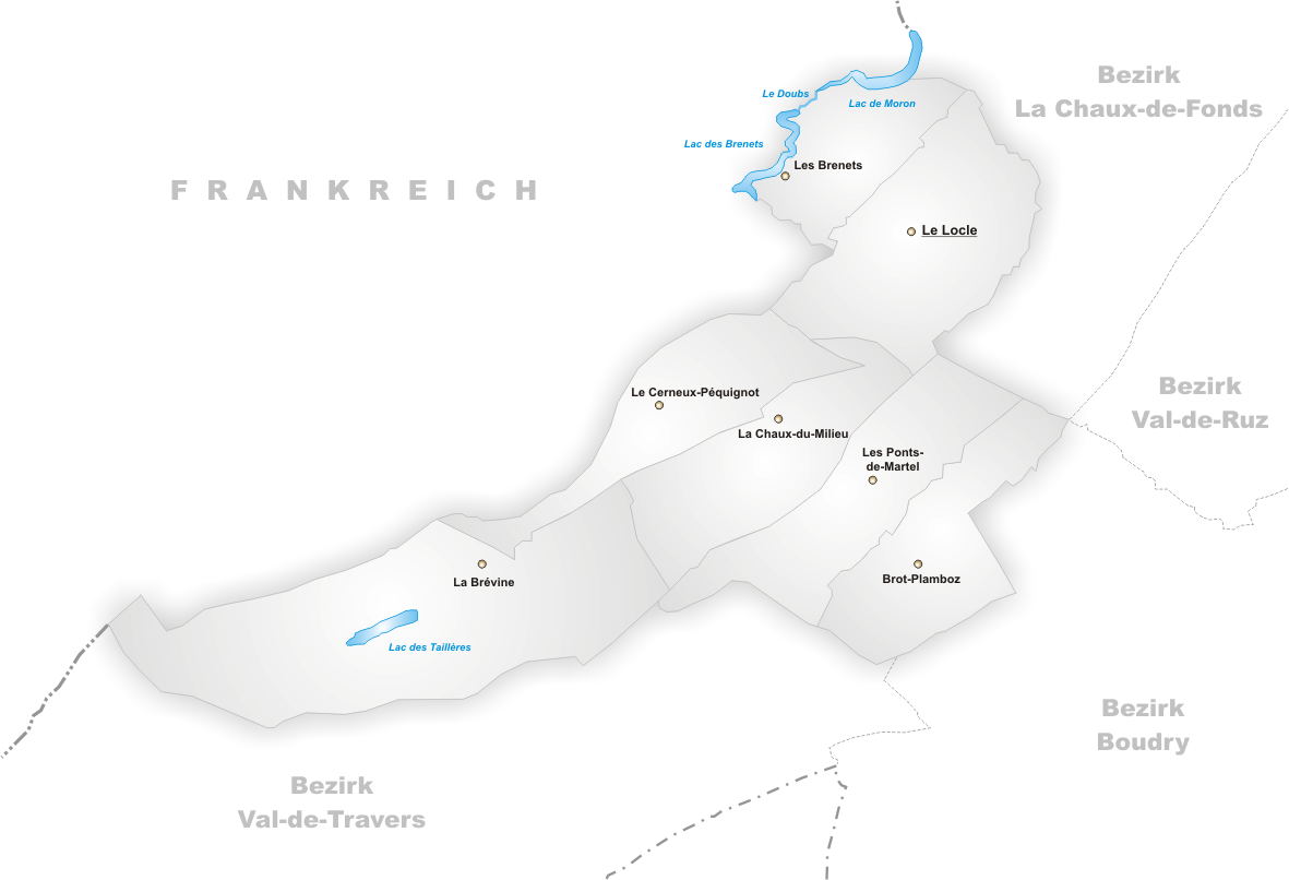 Municipalities of District Le Locle